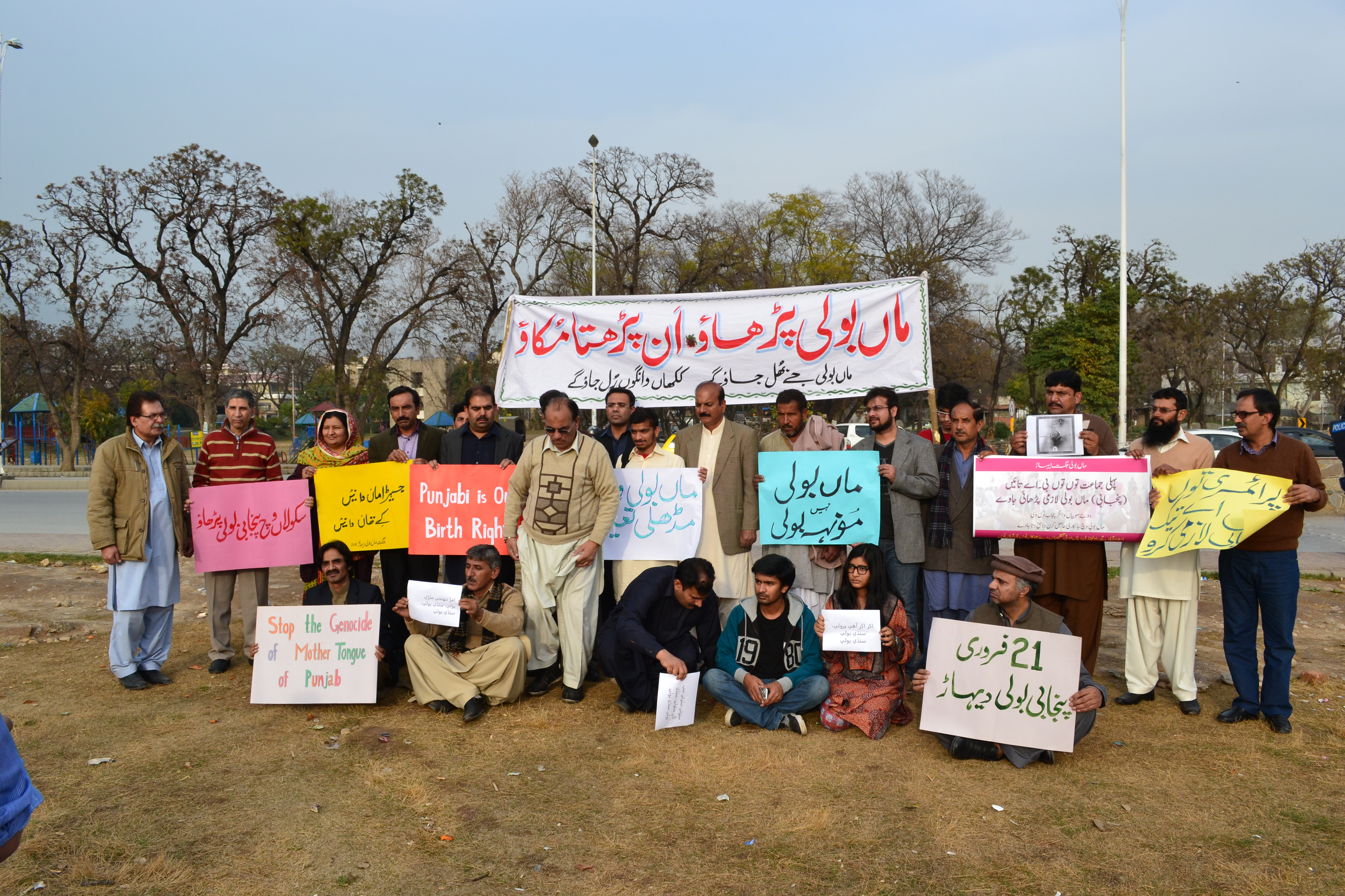 Mother Tongue Day gathering in Islamabad for Punjabi language.